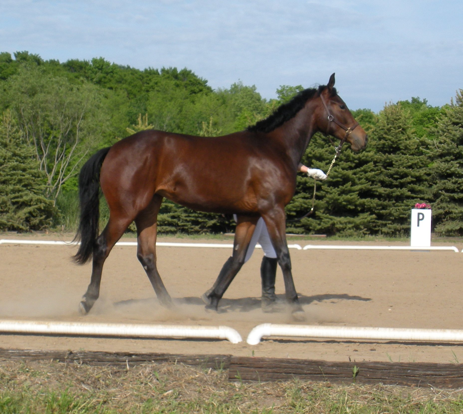 "Rock's Anne", a two year old American Warmblood filly being shown in hand